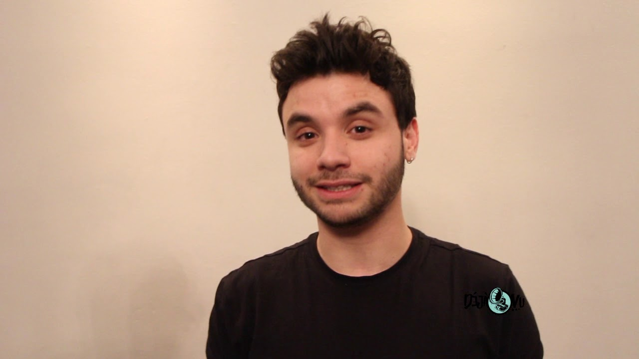 Agustín Casanova in 2018.